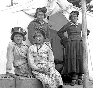 'Outside tent' ~ (Innu) ~ Mingan, Quebec 1947